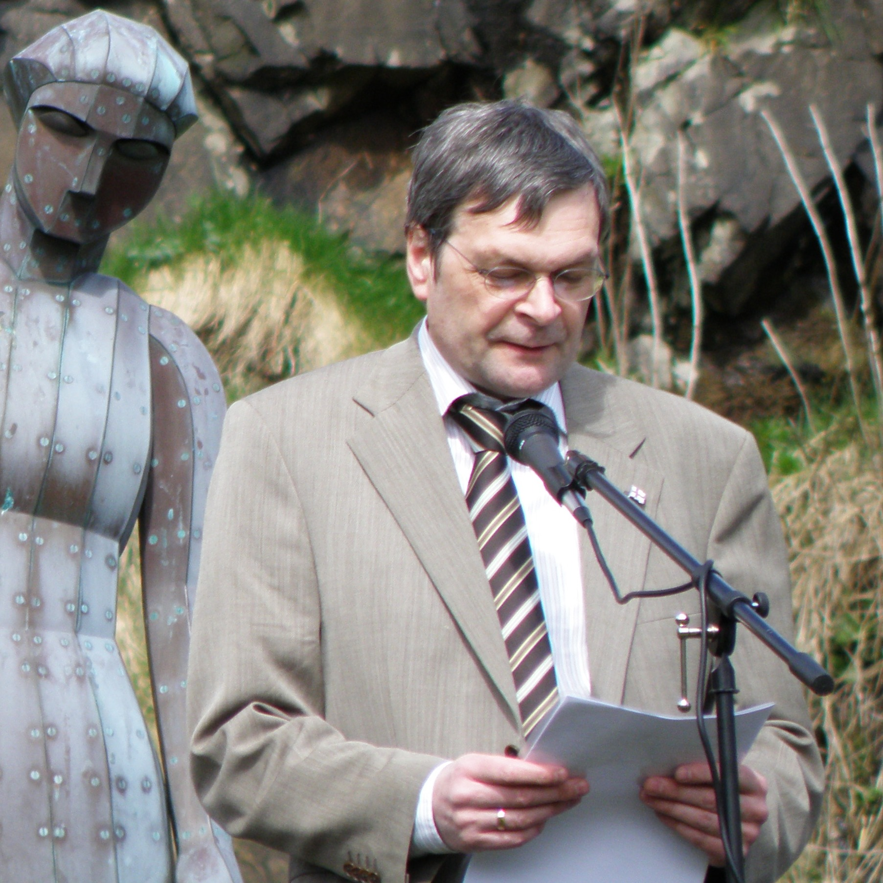 Mikkjal Sørensen is a Faroese politician, he is currently (2010) the mayor of Porkeri Municipality (Porkeris Kommuna) in Suðuroy, Faroe Islands. Sørensen has also been a member of the Faroese Parliament (Løgtingið), he was not directly elected, but he has been a substitute member instead of Jóannes Ejdesgaard in the period 1991-94 and for Hans Pauli Strøm from 4 February 2008 to 13 July 2009, representing the Social Democrats (Javnaðarflokkurin). Mikkjal Sørensen has been a member of the Town Council of Porkeri for some years and mayor since 1 January 2009. Føroyskt: Mikkjal Sørensen er føroyskur politikari. Hann er úr Porkeri og er í løtuni (2010) bygdarráðsformaður í Porkeris Bygdarráð, hann byrjaði sum bygdarráðsformaður 1. januar 2009, hann var bygdarráðslimur áðrenn tað. Eli Frederiksen var bygdarráðsformaður setuna áðrenn Mikkjal tók við. Mikkjal Sørensen hevur fleiri ferðir umboða Javnaðarflokkin á Føroya Løgtingi, hann var fastur eykalimur fyri Jóannes Ejdesgaard í tíðarskeiðnum 1991-94 og fyri Hans Paula Strøm í tíðarskeiðnum 4. februar 2008 - 13. juli 2009. Henda myndin varð tikin við Minnisvarðan í Vági, tá Mikkjal helt flaggdagsrøðuna 25. apríl 2009.